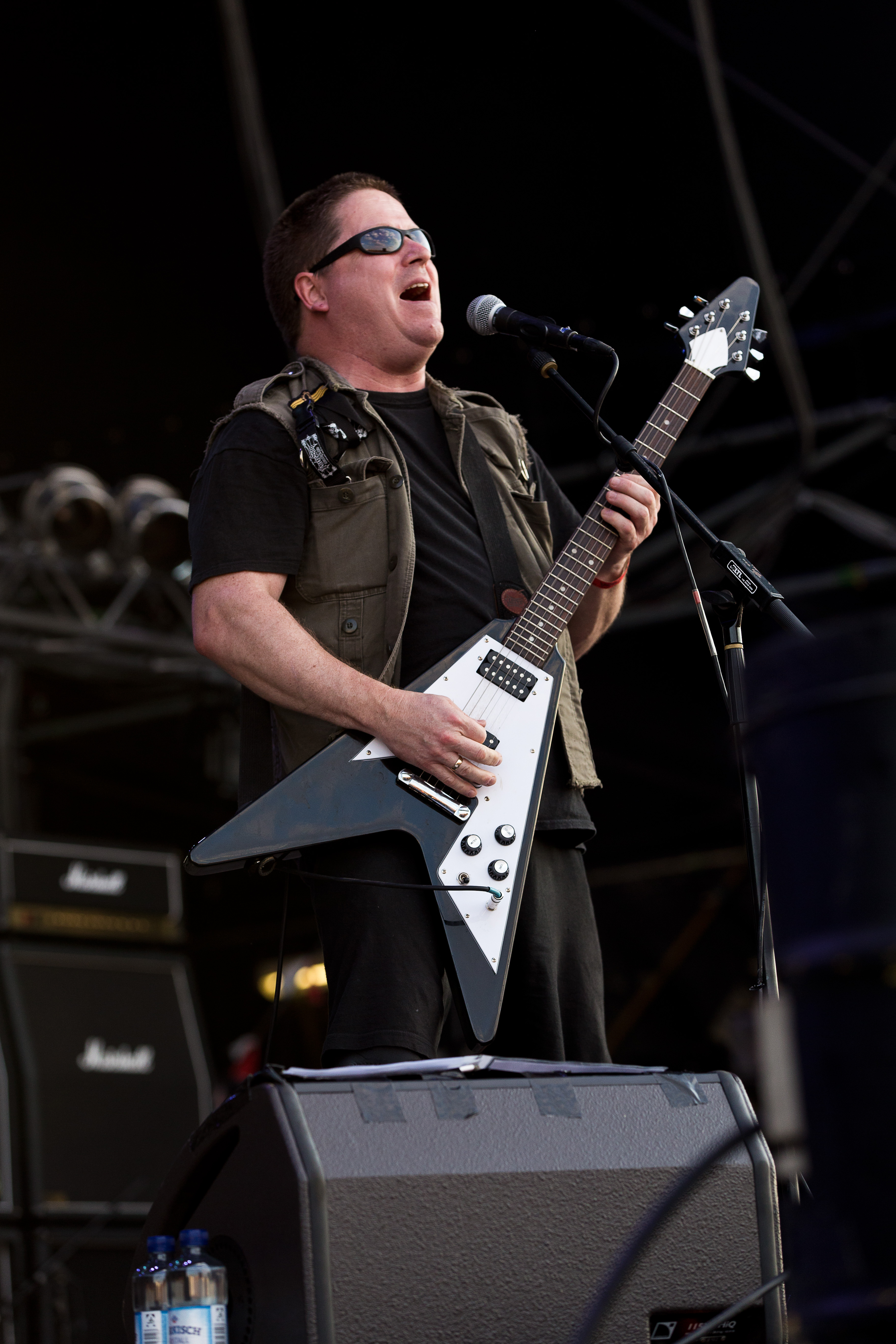 The US thrash metal band Nuclear Assault at the Party.San Open Air 2015 in Obermehler-Schlotheim/Germany.